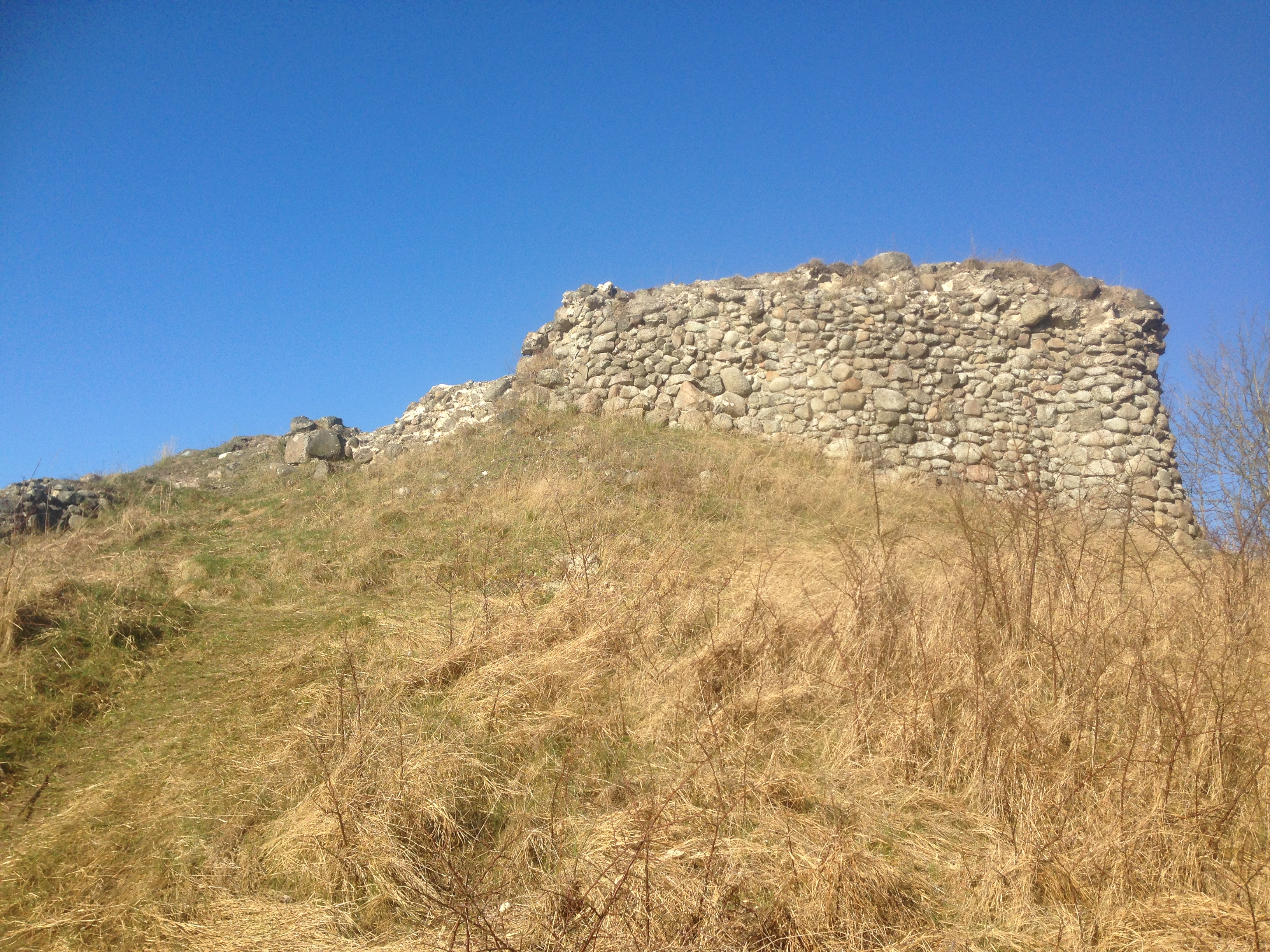 Bastruptårnet, Castle ruin in Zealand, Denmark, in 2017